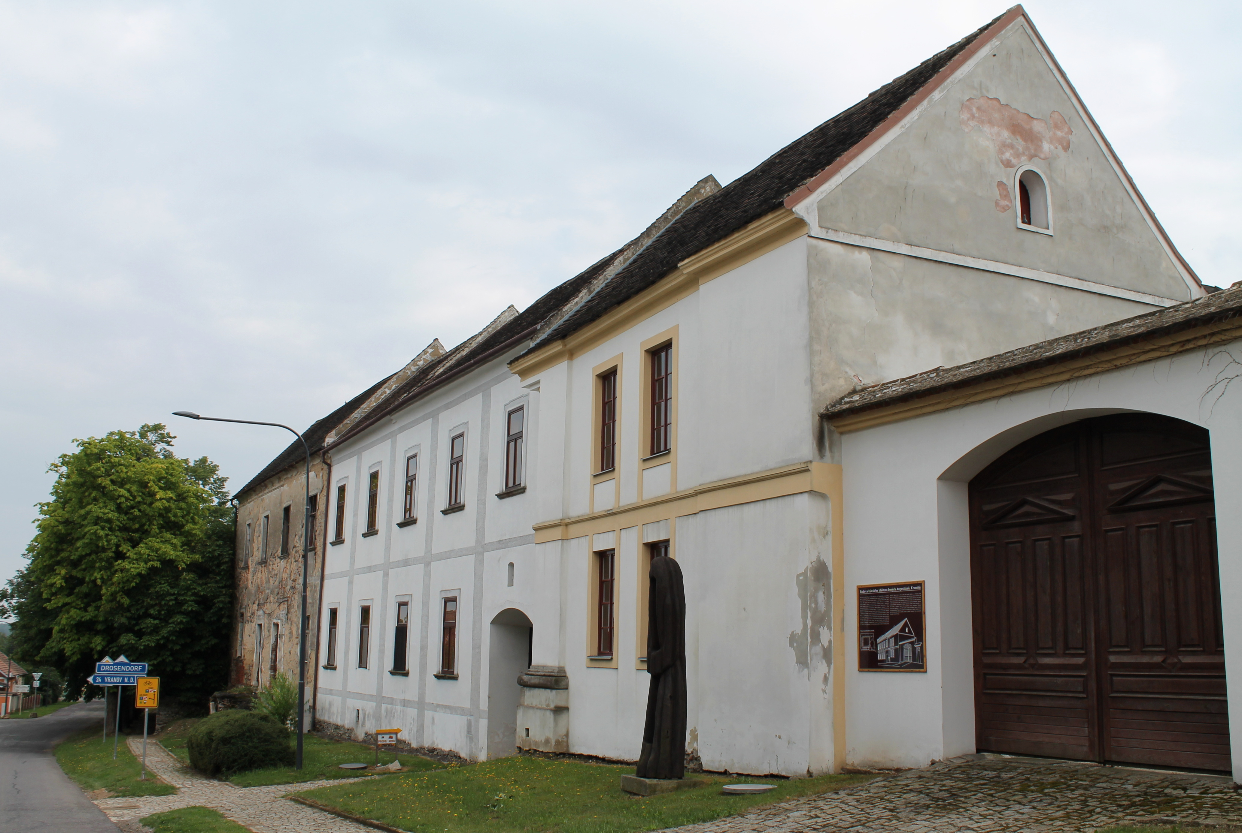 Monastery of Augustinians with Church of Saint Nicholas of Tolentino, Znojmo District, Czech Republic